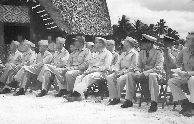 The High Command assembled on Guadalcanal in August 1943, during the planning for the Northern Solomons campaign, this group includes many officers who played important roles in the operations to come. In the front row, left to right, are: Brigadier General A. F. Howard, Rear Admiral Theodore Wilkinson, USN, Major General Charles D..Barrett, and Major General Robert S. Beightler, USA